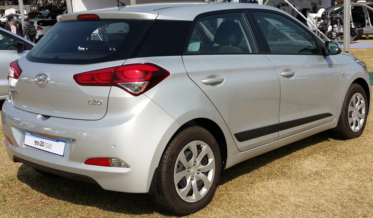 Hyundai i20